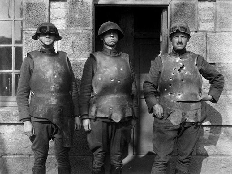 Arditi soldiers